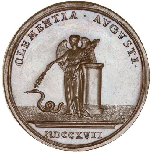 Reverse of bronze medal struck by the Royal Mint in honour of the Indemnity Act 1717. The obverse shows the head of King George I of Great Britain.